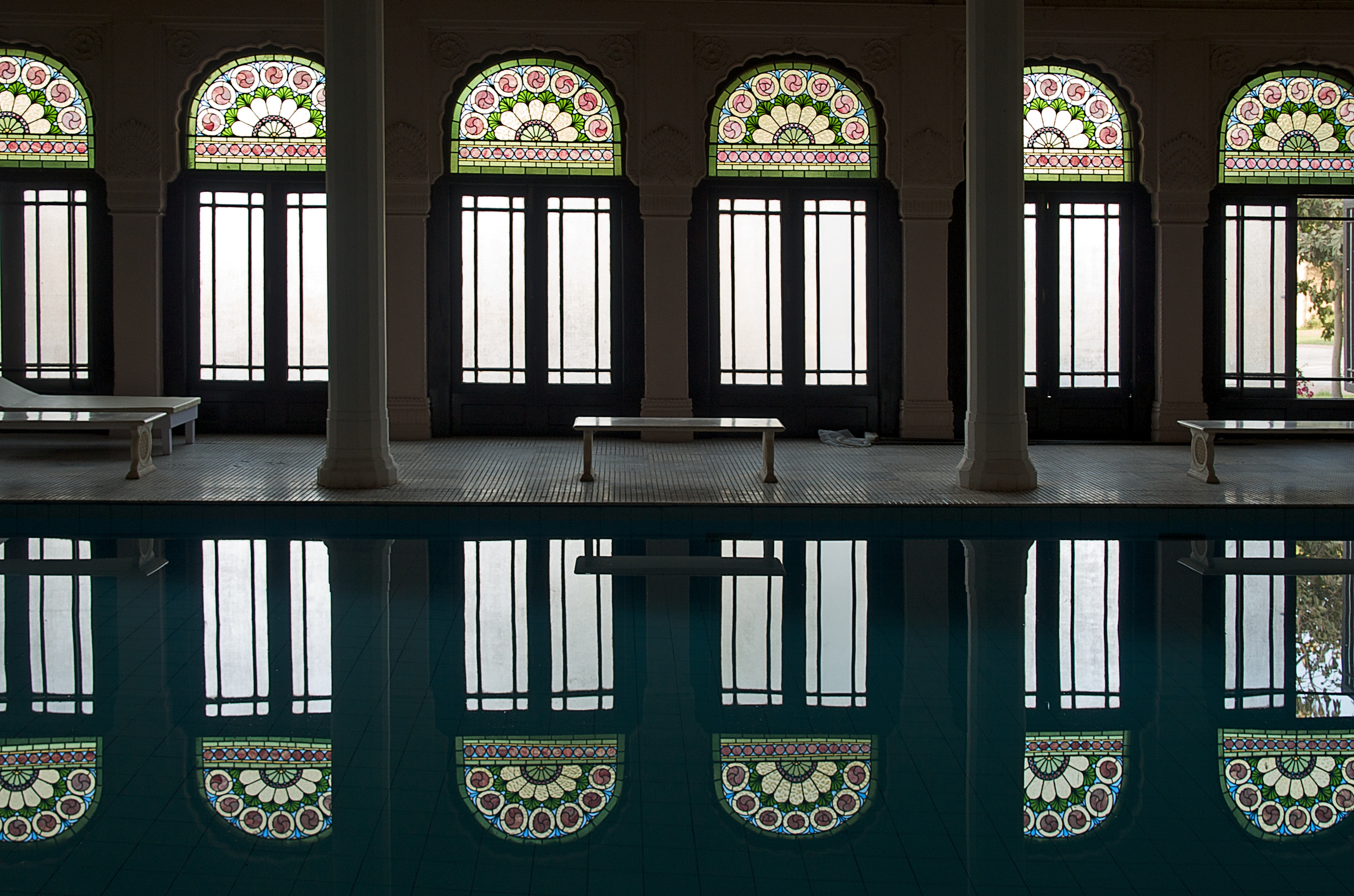 Lalgarth Palace